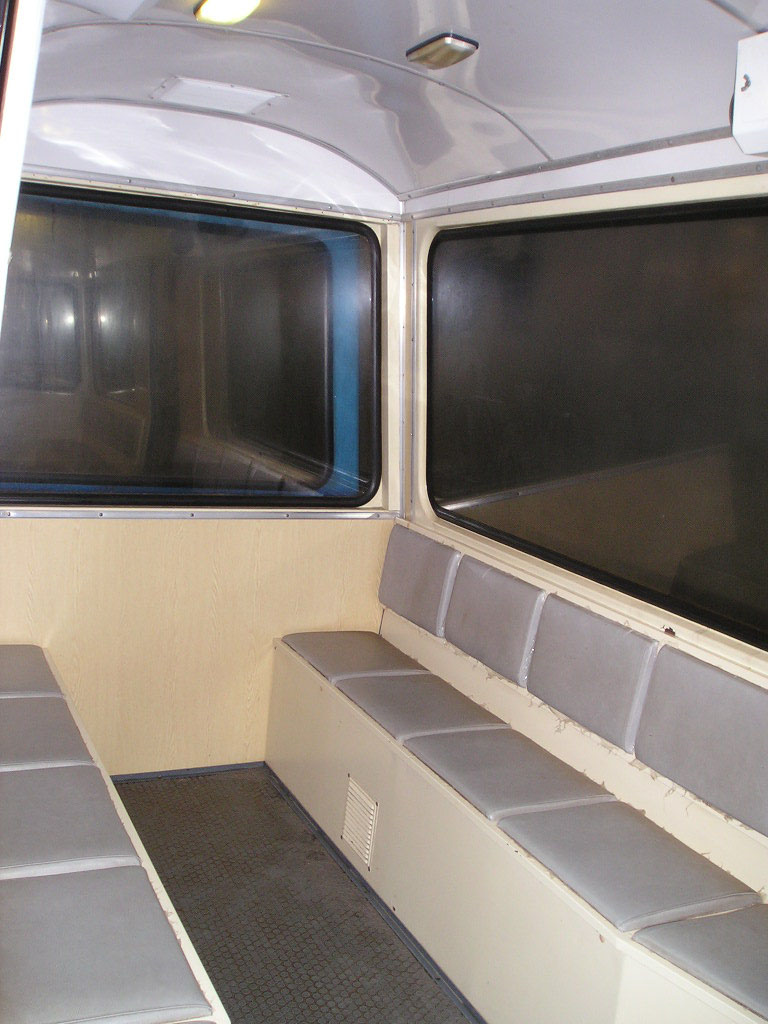 Interior of the train in Noviy Afon (Abkhazia)